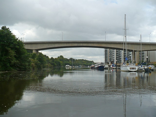 A4055 bridge over the River Ely, Cardiff Bay, Cardiff, Wales